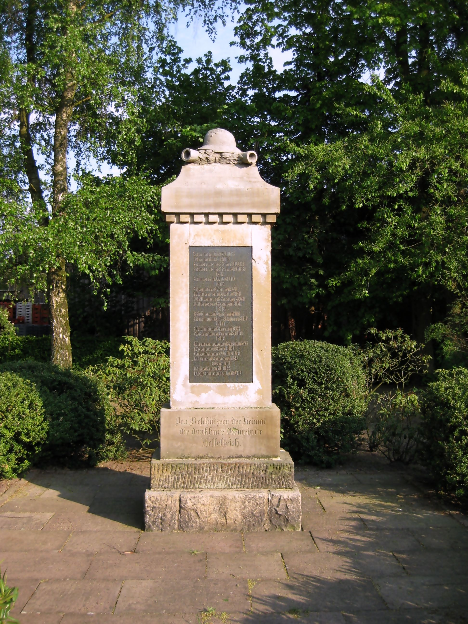 Memorial for soldiers killed in action in Versmold-Hesselteich